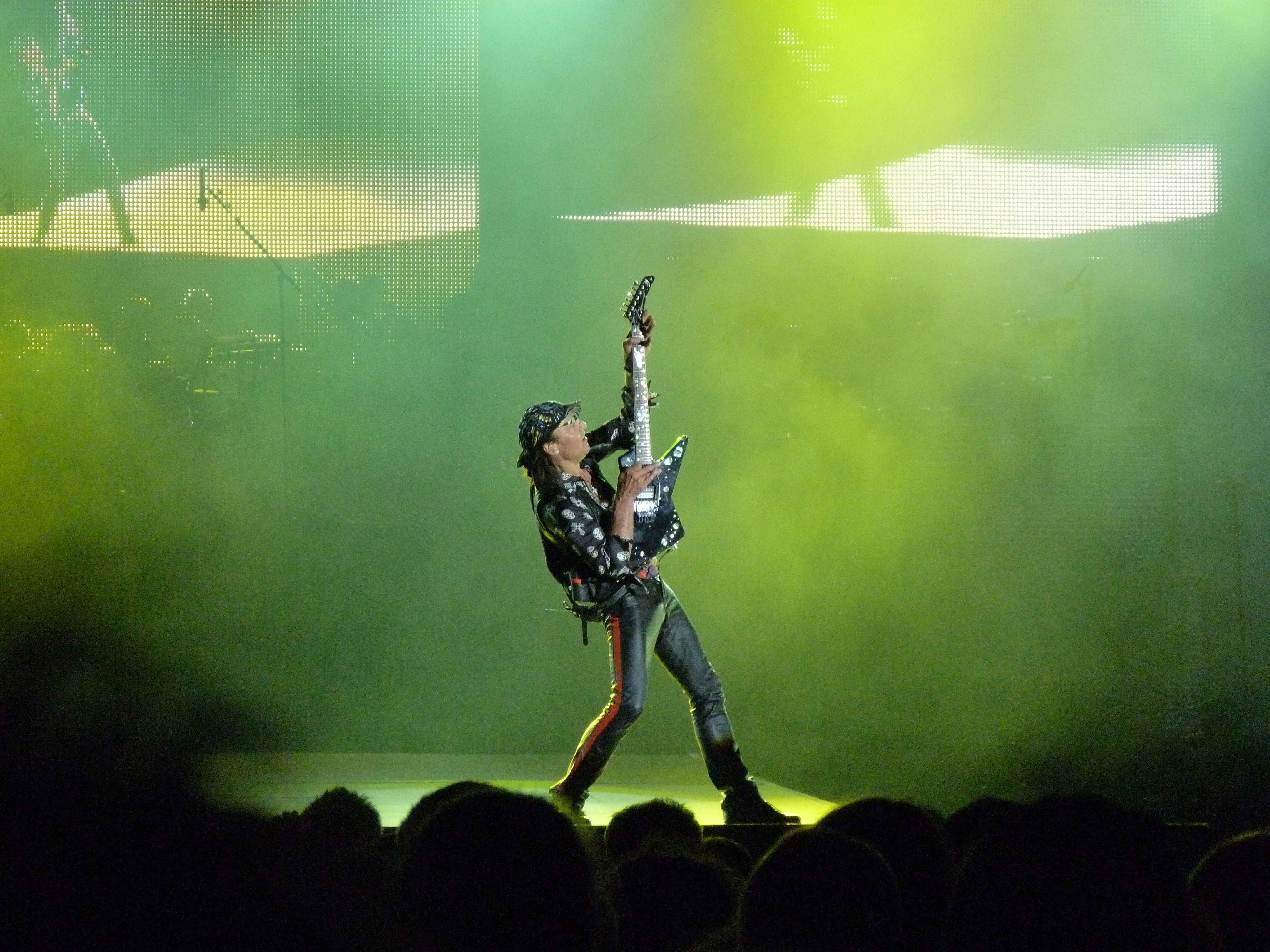 Live on the 16th of June 2014. It was 23 years ago, on the 19th of June, 1991 that the last soviet soldier left Hungary. Budapest, Hungary. Hősök tere (Heldenplatz, Heroe’s squere). Tags: Kóbor János Scorpions Omega Budapest Klaus Meine Kóbor János Rudolf Schenker Matthias Jabs Pawel Maciwoda James Kottak